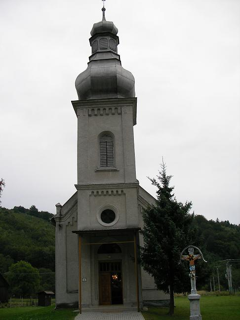 Hunkovce, Greek-Catholic Parish Church of the Dormition of the Virgin Mary.